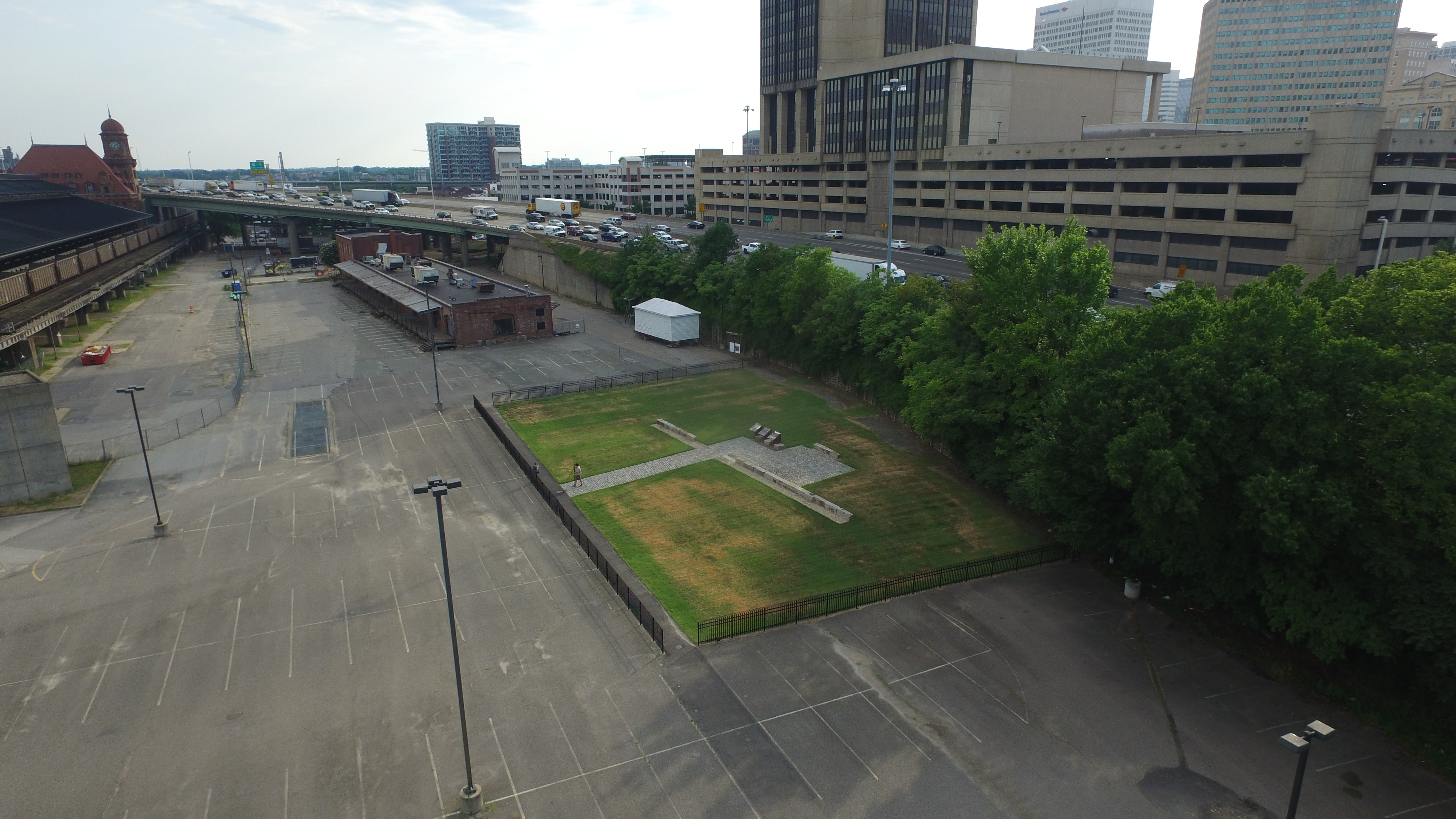 This historic site is right next I-95 in downtown Richmond VA.